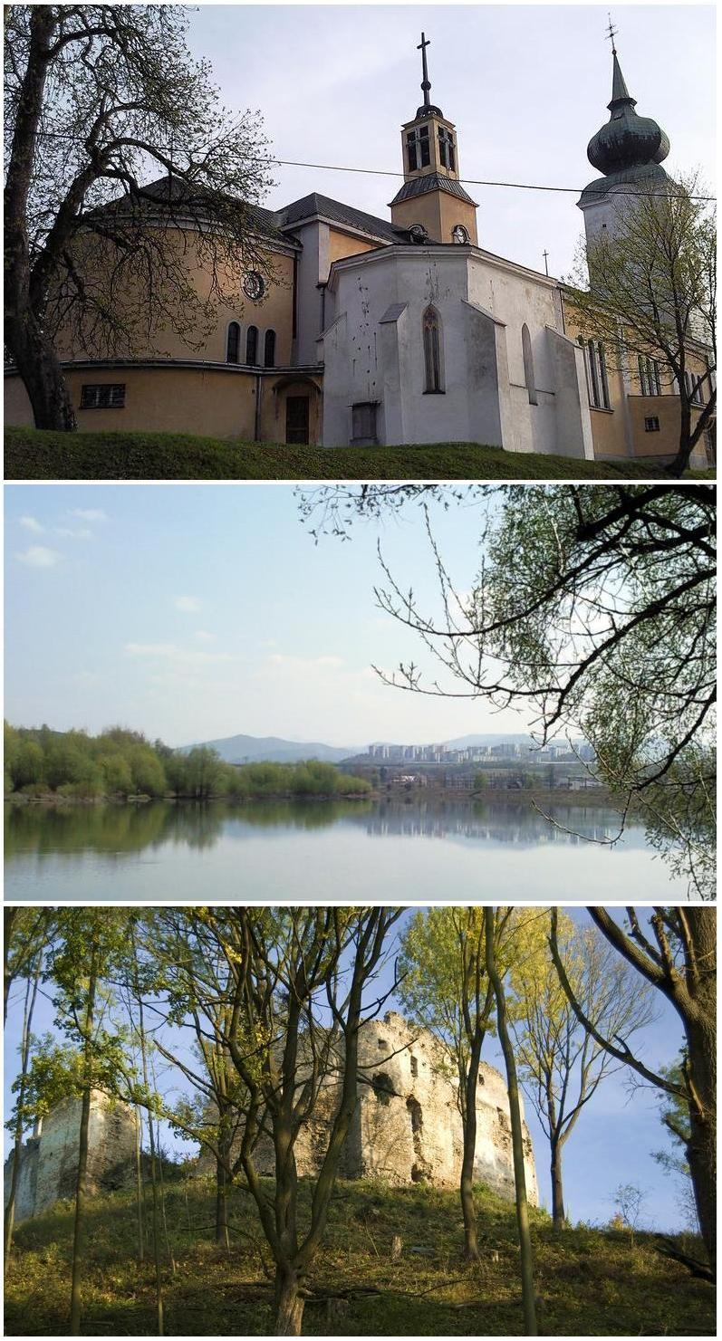 Mozaic of Povazska Bystrica. I have created it from pictures stred on Commons.